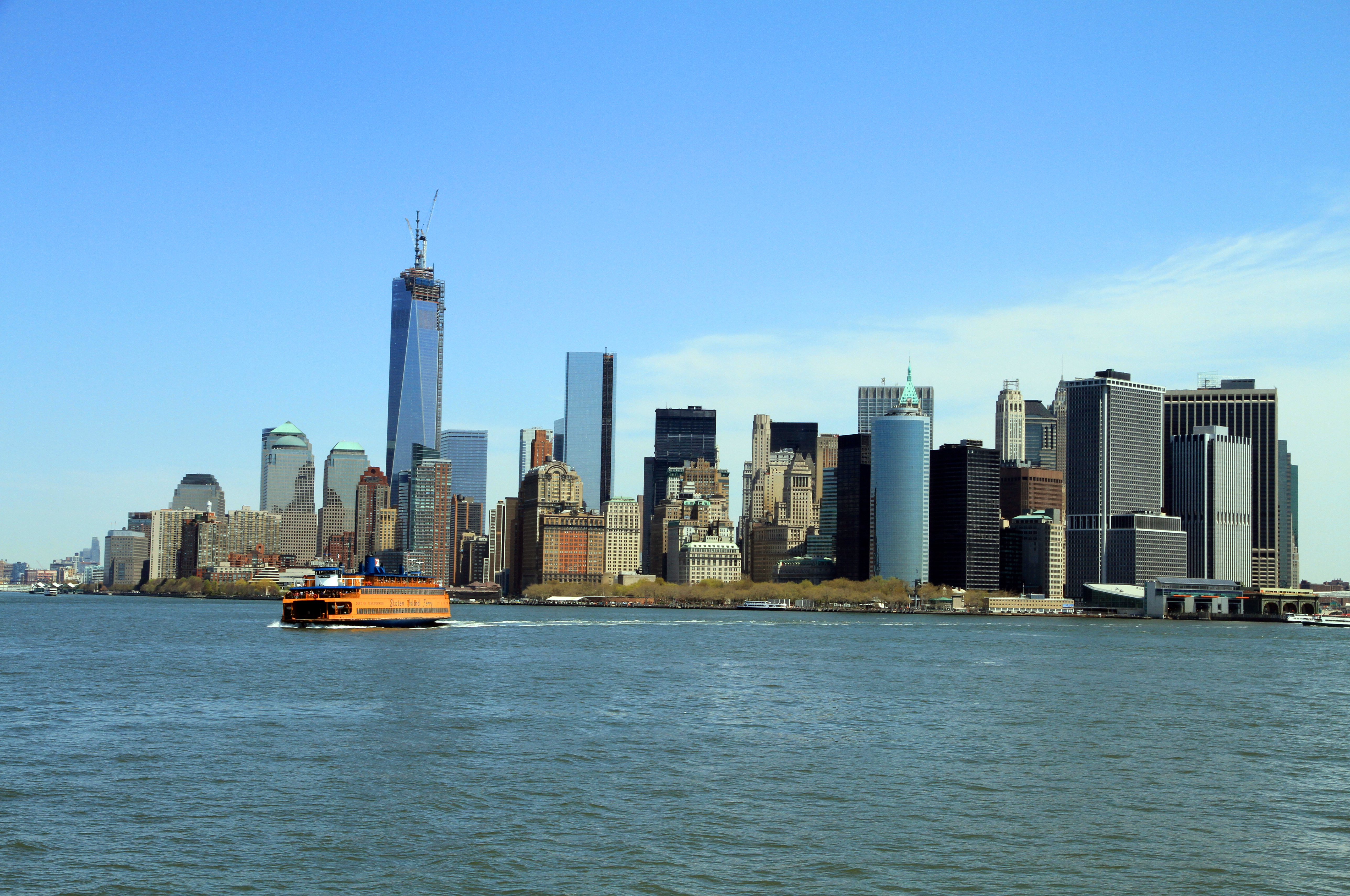 Lower Manhattan